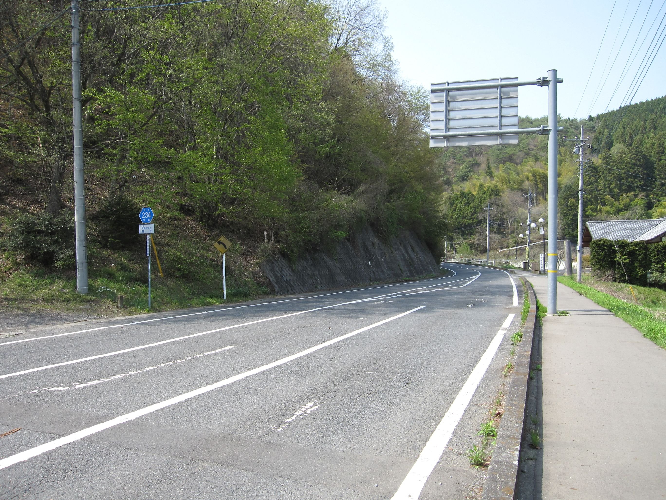 The Ibaraki Prefectural Road Route 234 in Torinoko, Hitachiomiya City